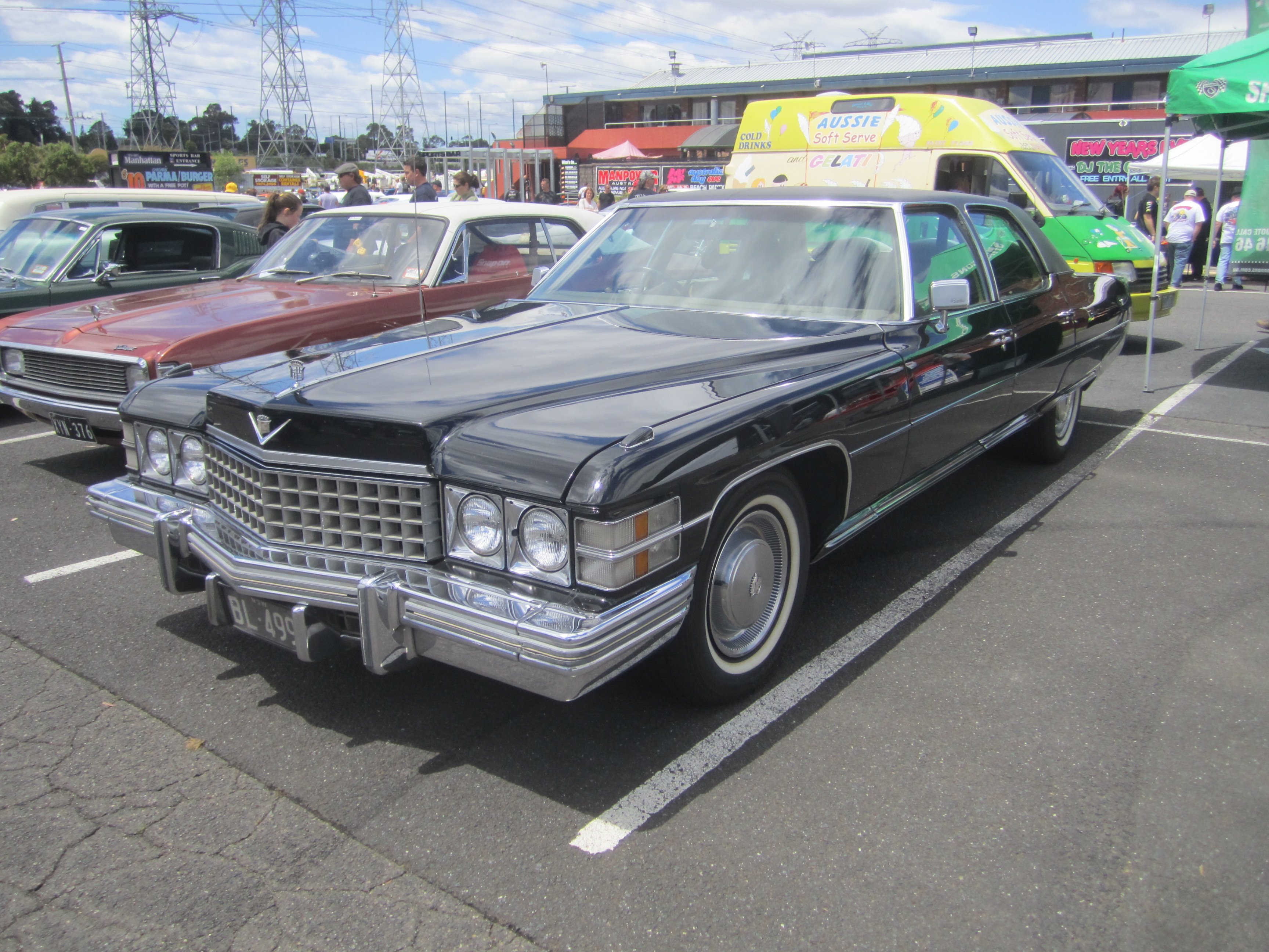 Available in Sedan, Coupe or Convertible. Engine; 472 cu in V8